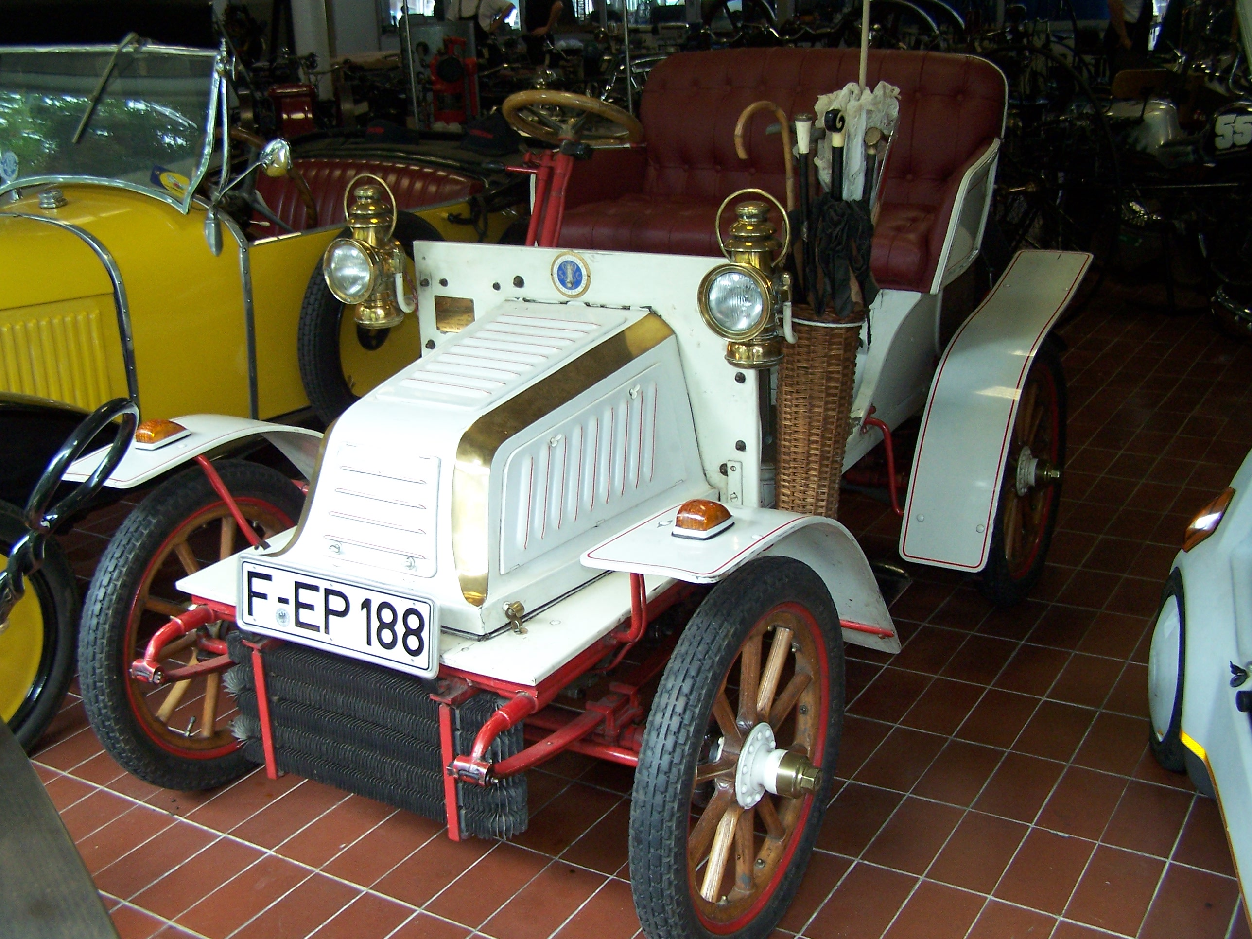 Bergmann car from 1901 in the Technical Collection Hochhut in Frankfurt on Main